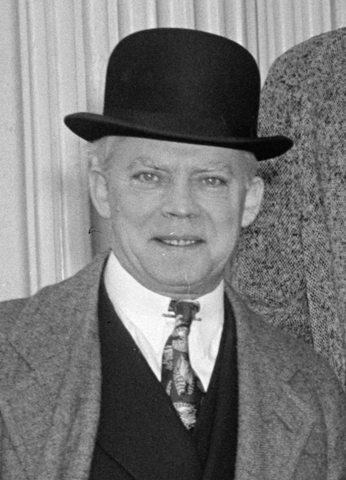 Group of legislators leaves White House after asking Franklin Roosevelt for $80,000,000 for flood control in Ohio Valley, March 7, 1938. front: l-r Joseph A. Dixon, OhioJames G. Polk, OhioEugene B. Crowe, PennsylvaniaG W Johnson, West VirginiaLawrence E. Imhoff, Ohiorear l-r : Peter De Muth, PennsylvaniaKent E. Keller, IllinoisBrent Spence, Kentucky.